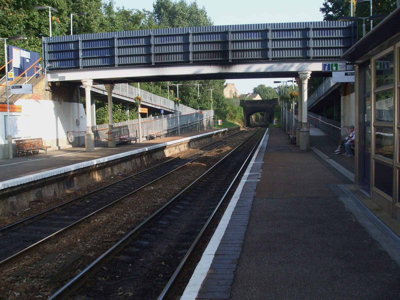 Walthamstow Queen's Road station looking east